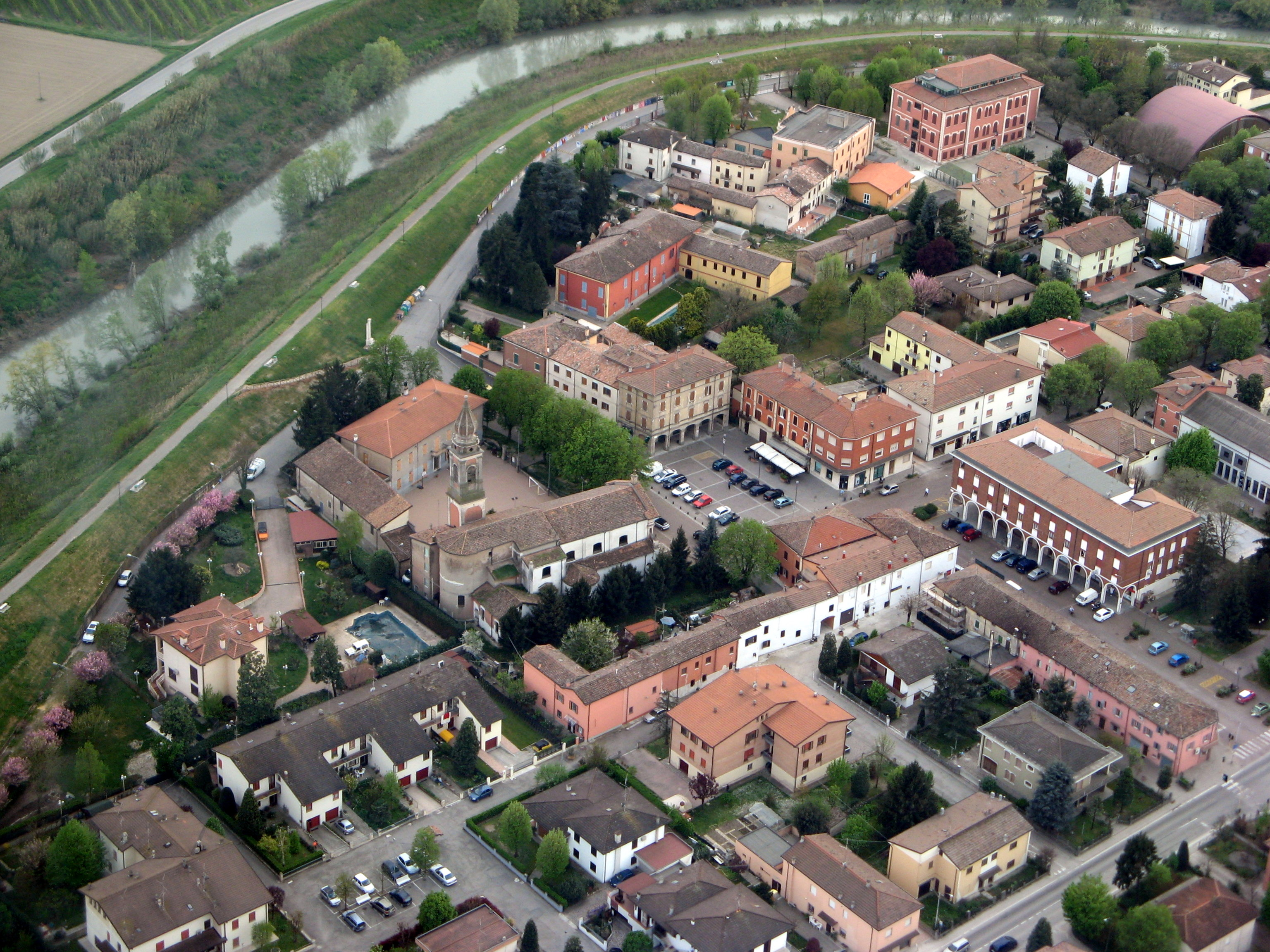 Photo of the centre taken from an airplane.